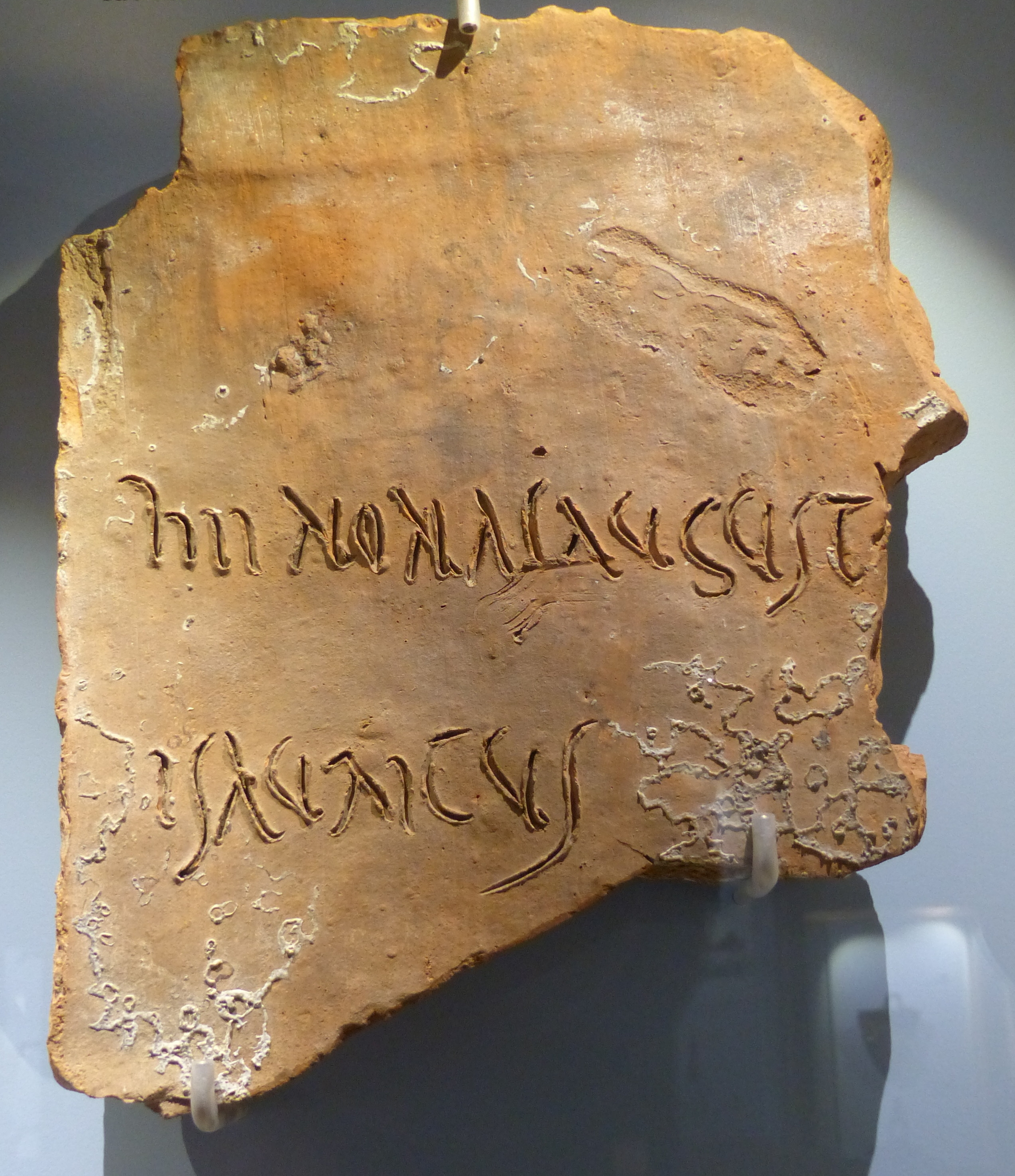 Enns ( Upper Austria ). Museum Lauriacum: Brick ( 3rd century AD ) from the ancient Roman military encampment ( Enns ) with the date of production IIII NONAS AVGVSTA(s) ( 2 August ) ISAVRICVS